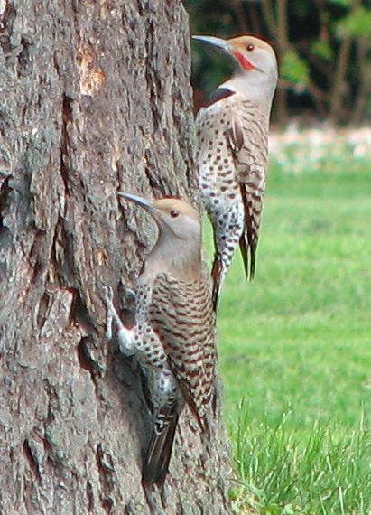 Photo of Northern Flicker couple taken by David Margrave 4/5/07, Marymoor Park, Redmond, WA USA.